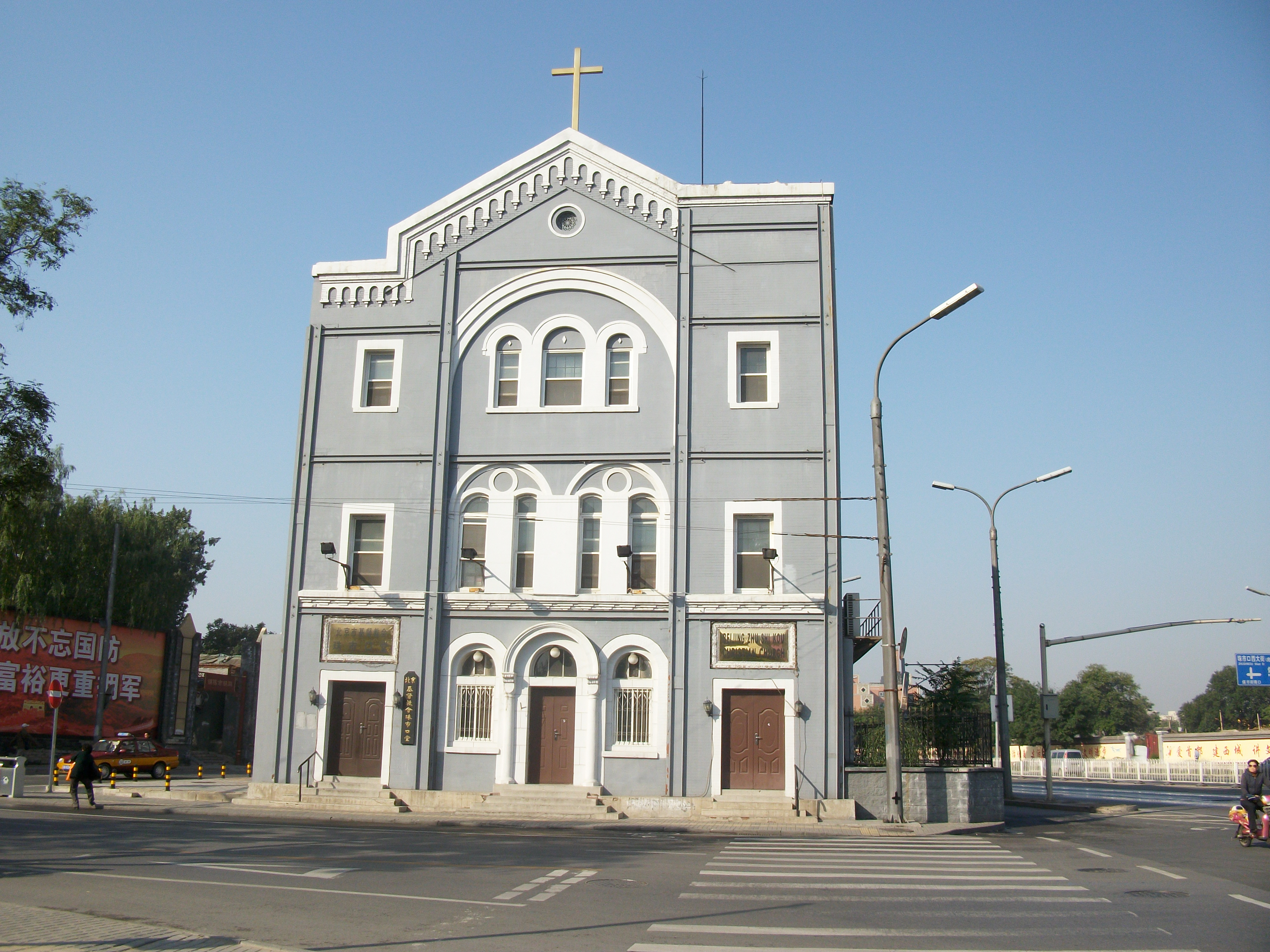 Zhushikou Church in Beijing.